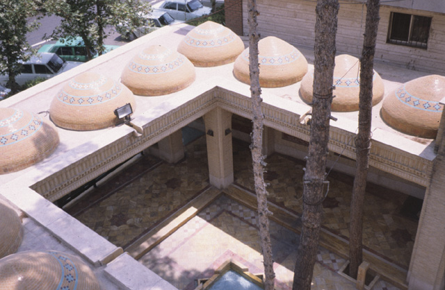 A simple Sahn (courtyard), with a howz in the middle. Notice flanking domed arcade.